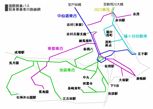 antecedent lines of Kokusai kogyo bus